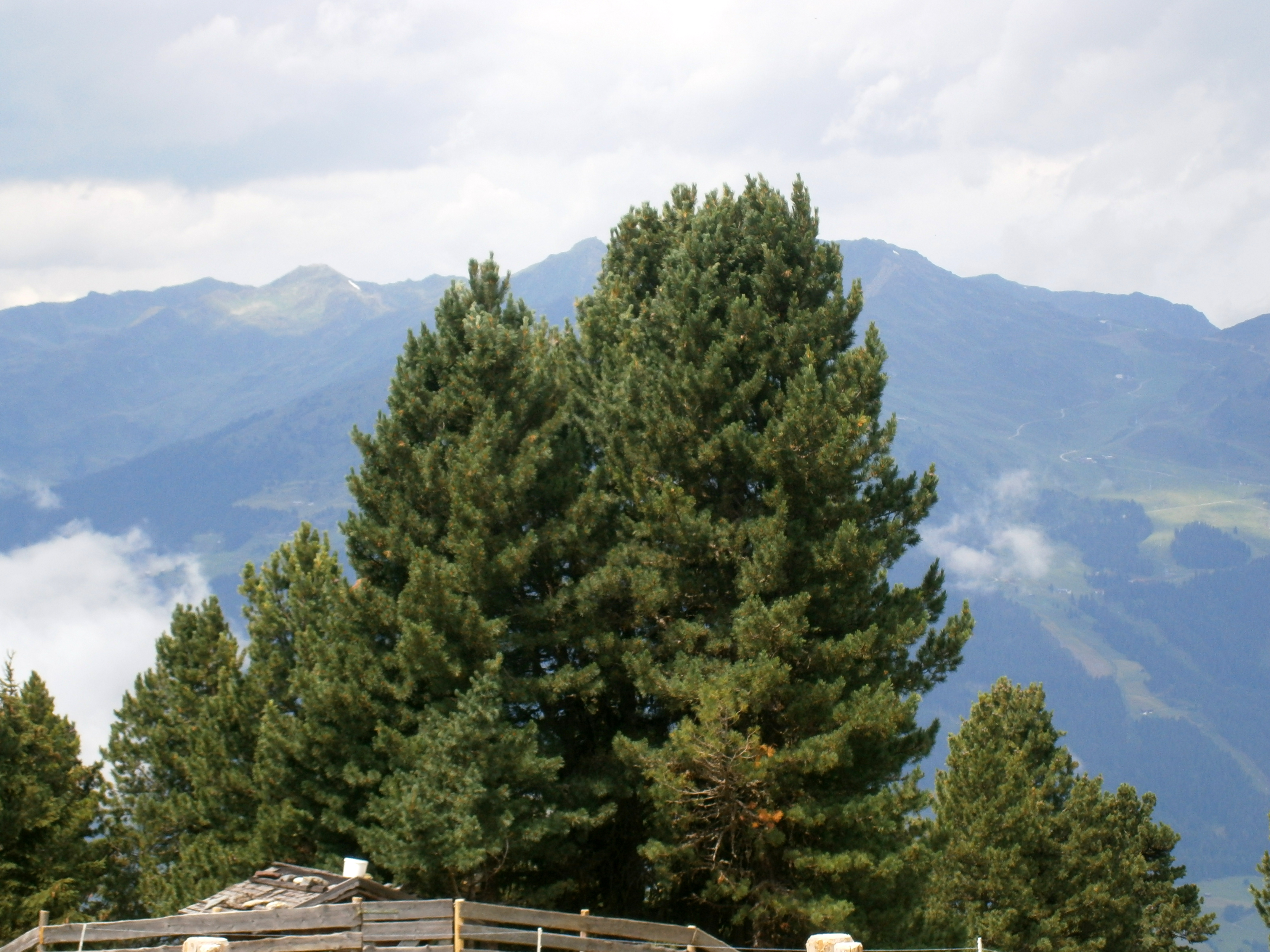 Pinus cembra in Tyrol